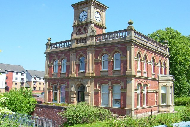 Ferguslie Thread Mills, Paisley, Scotland. Bridge Lane Gate House, now converted to residential flats